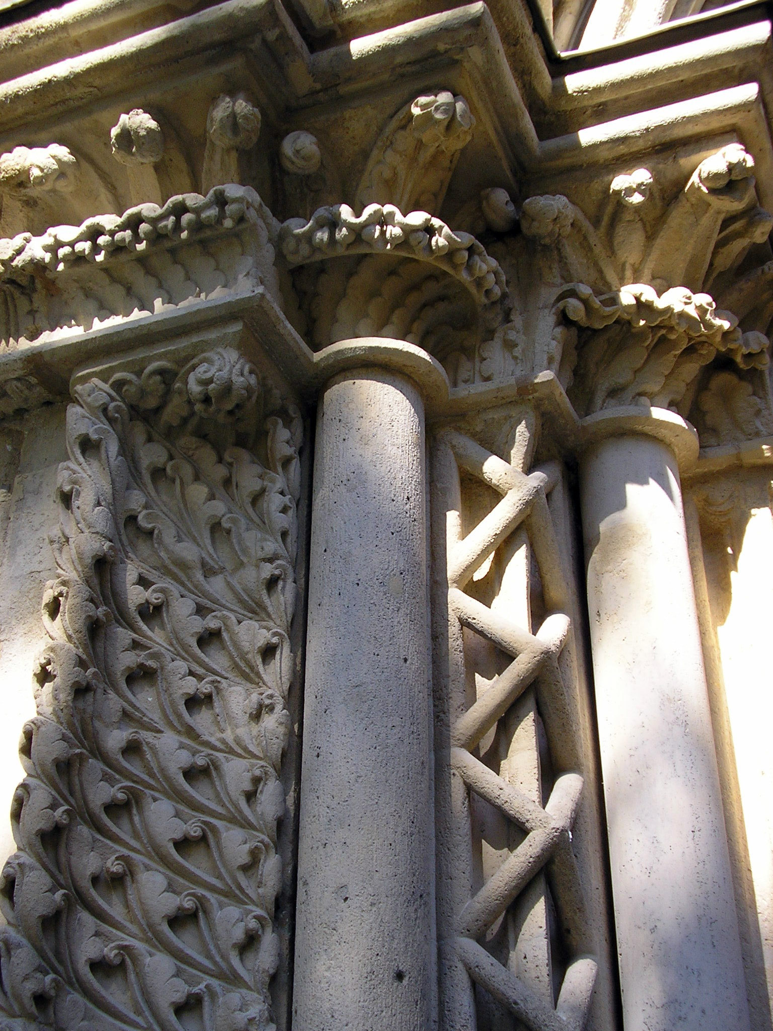 The churche in the village of Lebeny, in Hungary